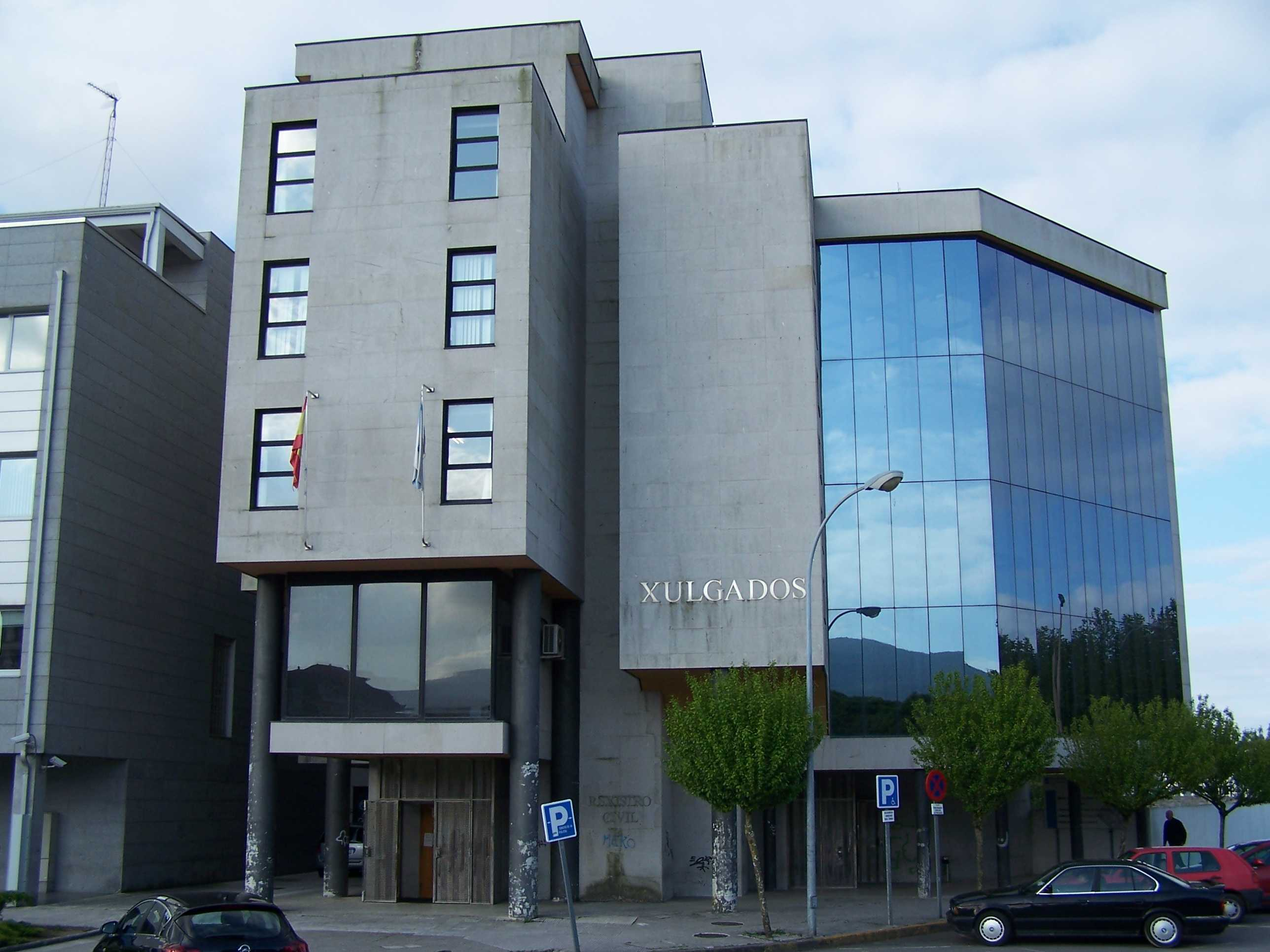 Court of Vilagarcía de Arousa (Pontevedra) in Galicia, Spain.